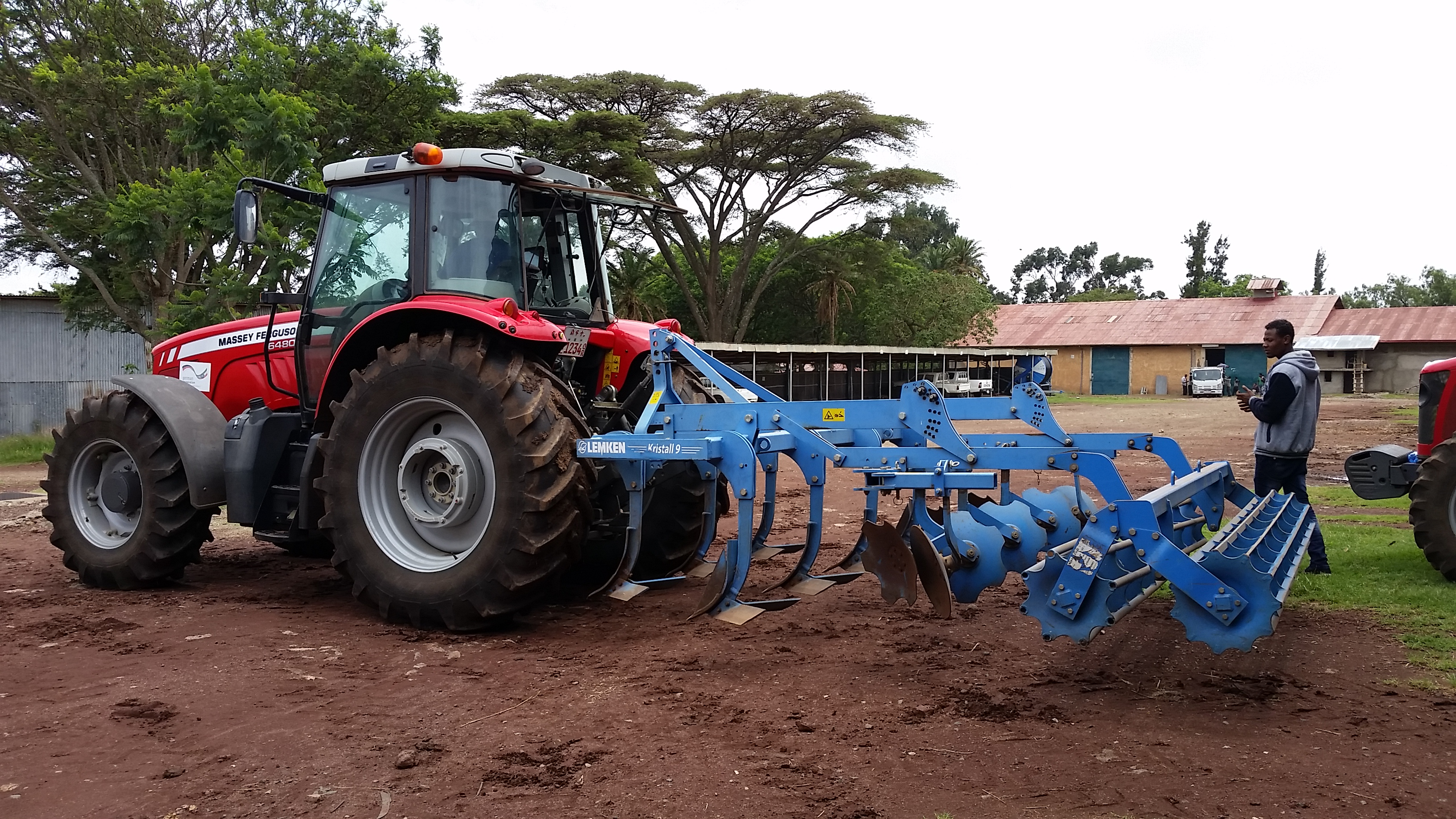 Ethiopia's use of modern technology on farms is very low, in large part due to the small-holder nature of the farming system. Access to tractors, especially those with specialised implements, is rare and usually only available to those with large commercial farms. Here, international and local aid institutions and NGOs are trying to promote better access to tractors through training local staff, offering service centers and rentals, and providing farmer education on the benefits of mechanized farming. This is an image of "African people at work" from Ethiopia